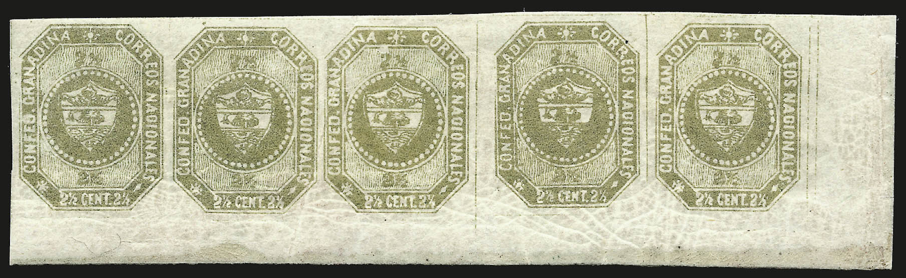 Colombia, Granadine Confederation 1859, 2-1/2c Olive Green. Positions 51-55, horizontal strip of five with full corner sheet margins.